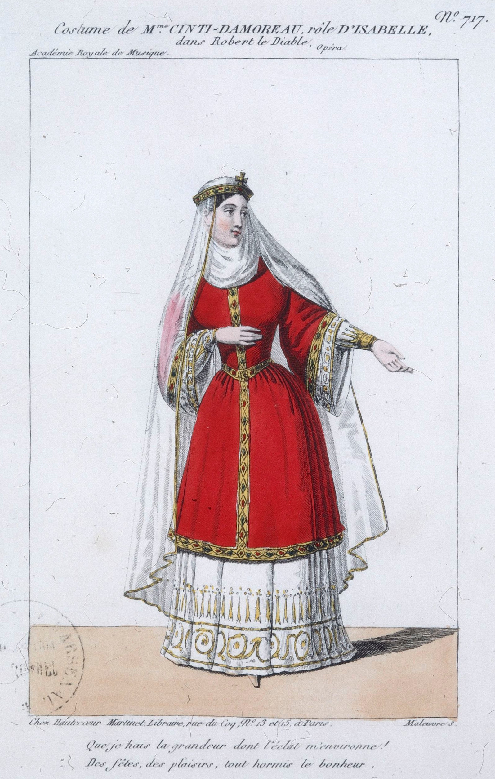 Cinti-Damoureau in the role of Isabelle in Meyerbeer's opera 'Robert le diable'